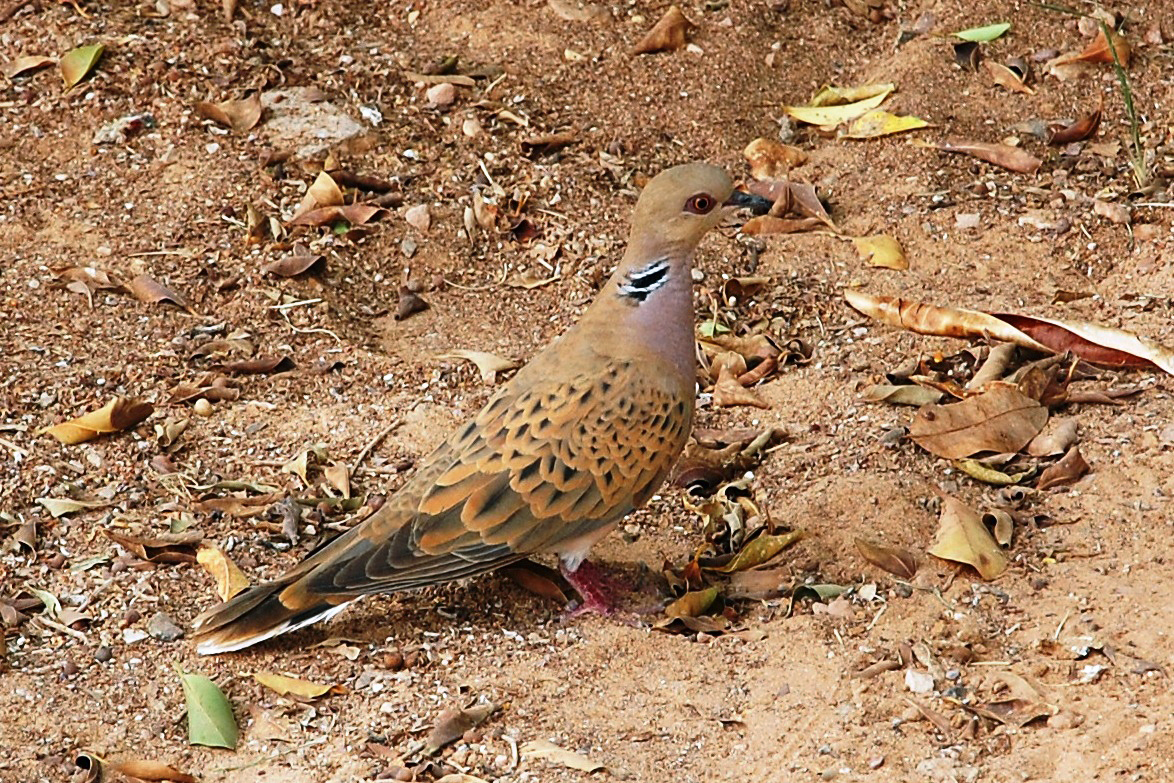 Streptopelia turtur rufescens - Abu Simbel, Egypt